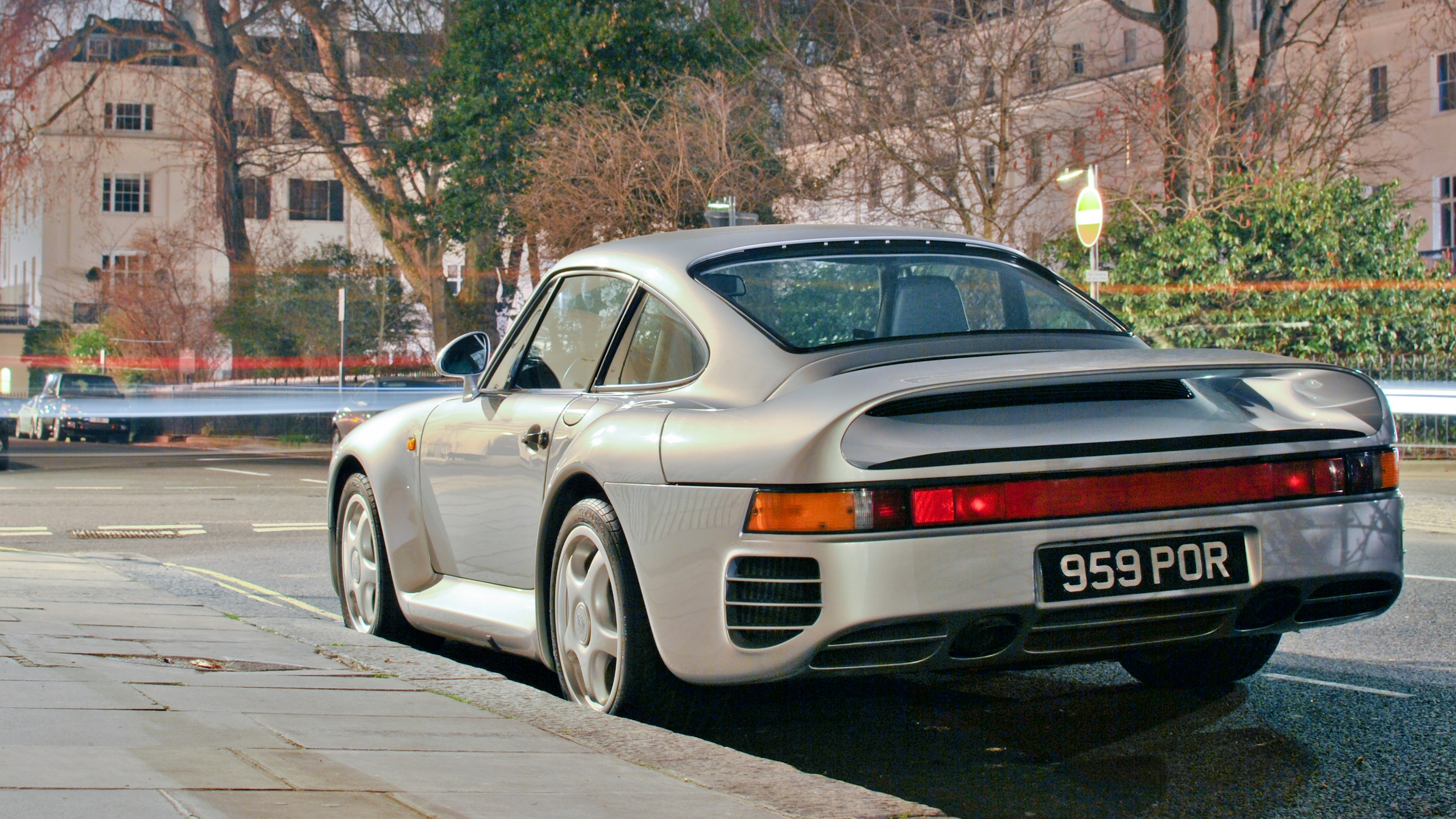 This is not just any 959. This is one of only eight uber-rare Series 2 models built in 1992/93 from spare parts at Zuffenhausen. These later cars feature what was then a newly developed speed-sensitive damper system, as well as other detail changes, and are today the most sought-after of all 959s. This car's former owners include Anthony Maclean, Peter Livanos and Juan Barazi. It's arguably the best example in the UK, and very possibly in the world. For more automotive goodness, follow @torquespeak on Twitter.